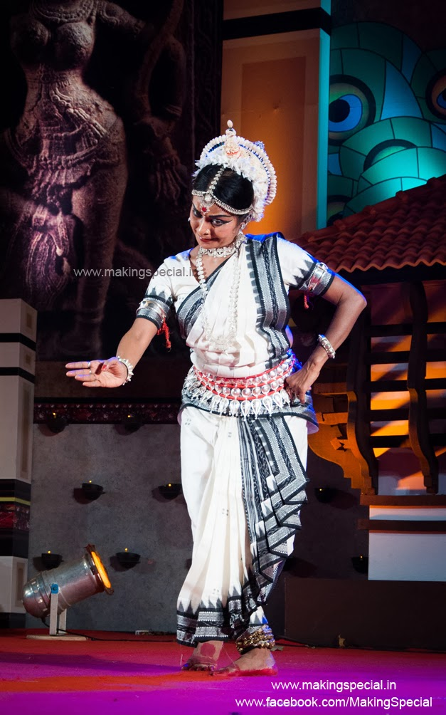 performance in Nishagandhi Festival